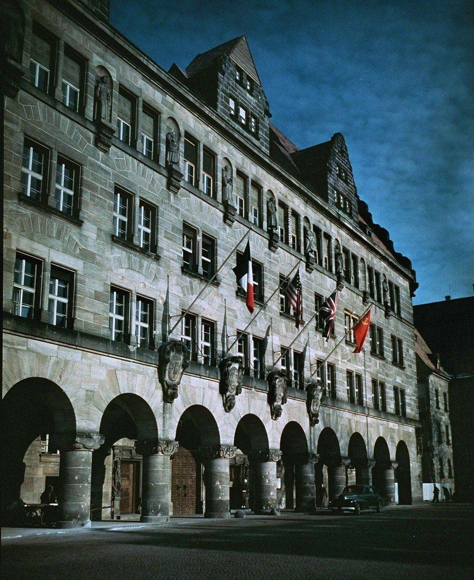 See title